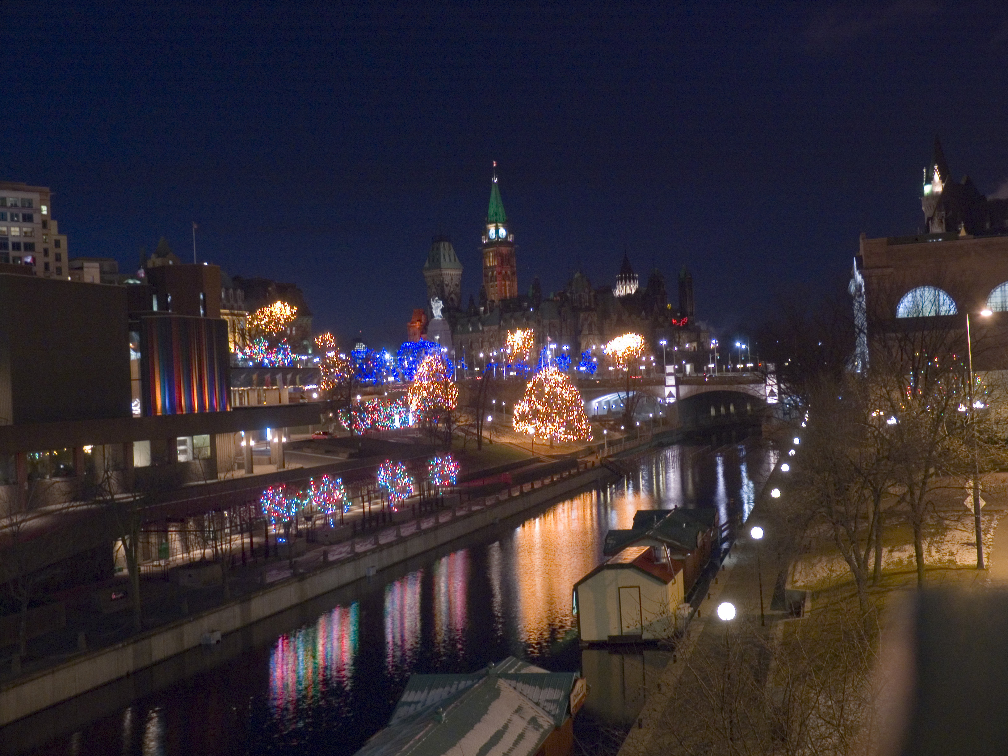 Ottawa, Canada: The Rideau Canal became a UNESCO World Heritage Site on June 29, 2007. It is the best preserved canal in North America from the great canal-building era of the early 19th century to remain operational along its original line with most of its original structures intact. Christmas lights reflection near the National Arts Center (NAC). Parliament Hill and National War memorial in background. Old train station on right. Skate sharpening shacks and Beaver Tail concession stand floating in water. Note how the colored water reflections mimic the color banners on the NAC building (on left). When viewed very large, there is a small vertical shift due to accidental camera motion that went unnoticed until post-processing : This 'defect' seems to have had the benefit of preventing 'burn-in', i.e when a small and bright high dynamic range light source saturates the CCD pixels to white during long exposures. Hence the colors of the very small point-like lights remained distinguishable. I suppose its a 'happy accident' however next time I will take multiple exposures and synthesize an HDR. -Added to the ream of the Crop pool as my best of 2006